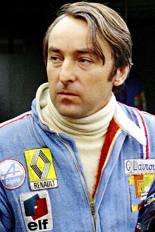 French racing driver Gérard Larrousse pictured on September 14 1975 during a Formula 2 race at Zolder in Belgium. Scan of a colour print.